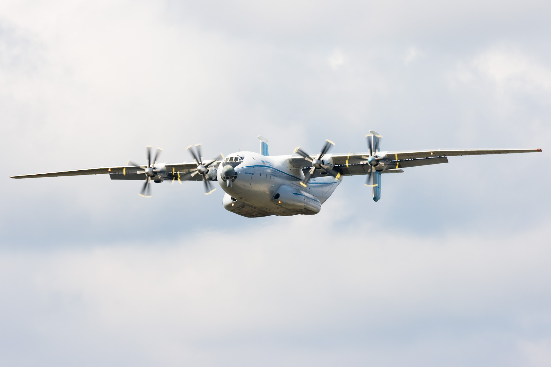 Antonov An-22 "Antaeus"